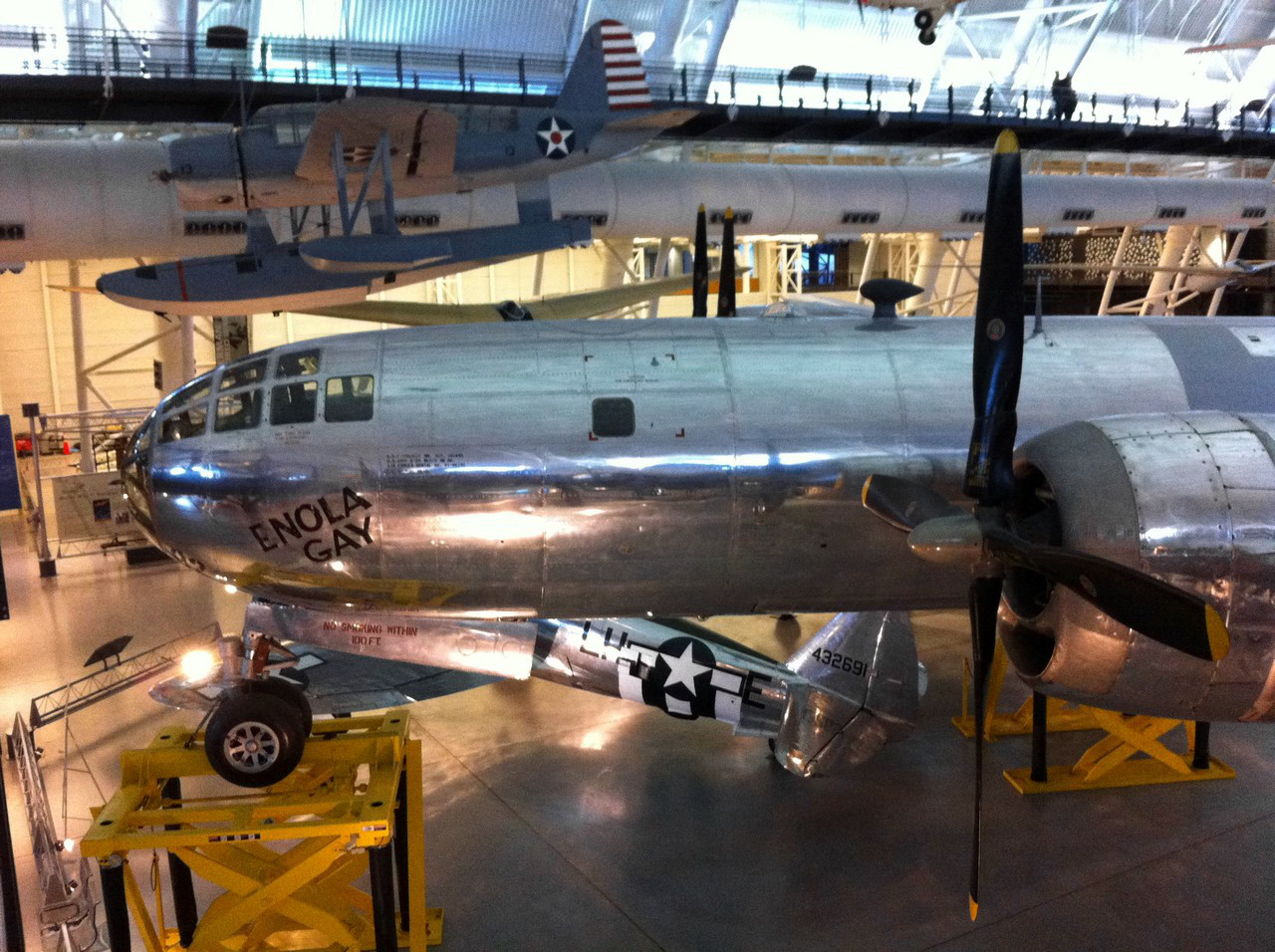 A profile view of the famous B-29 Superfortress Enola Gay.